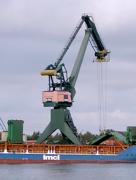 Crane in port in Gdansk, Poland.